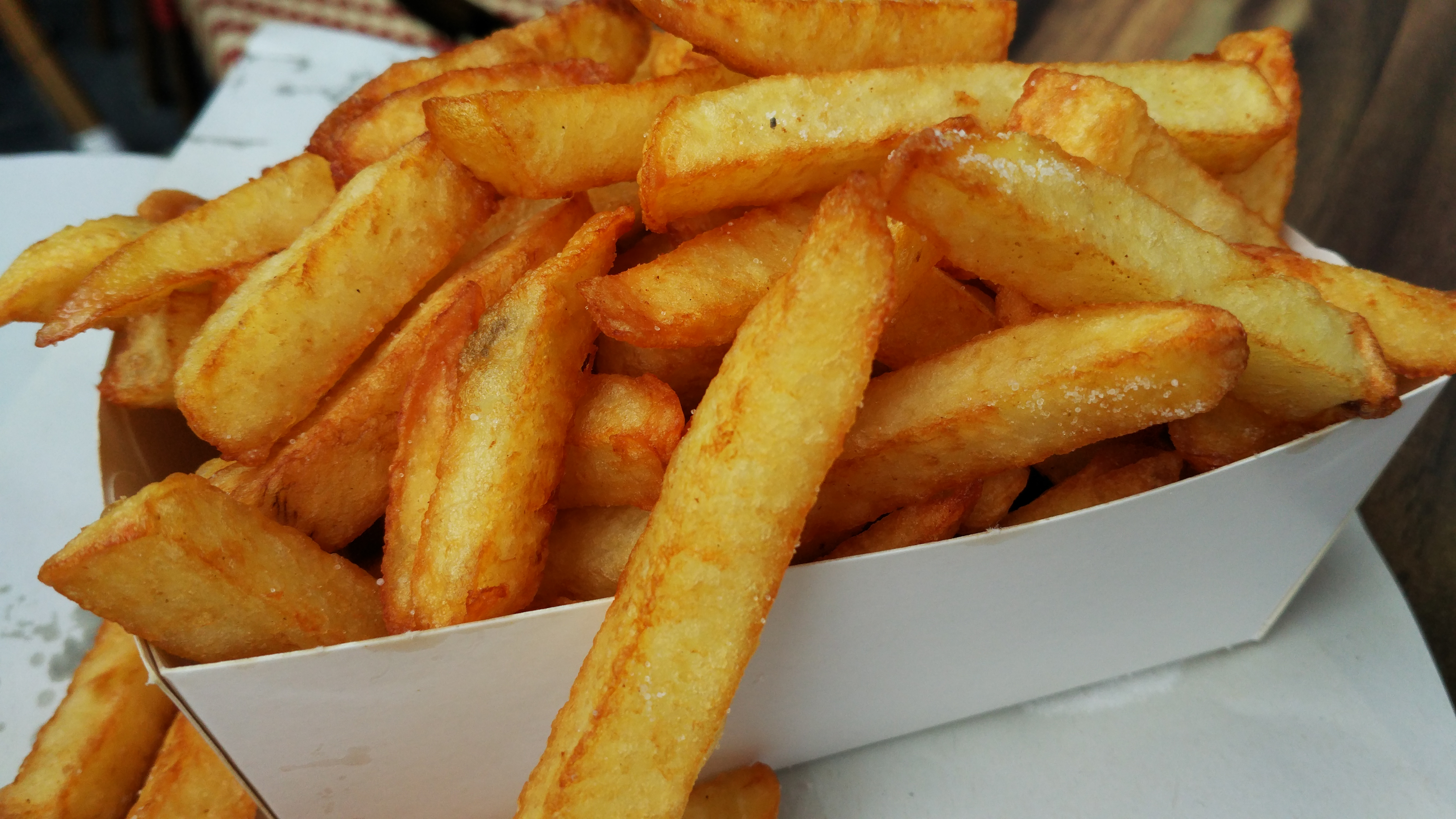 A serving of French fries.